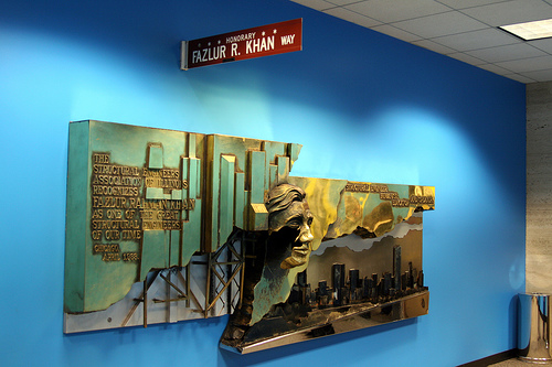 FR khan sculputure at Sears tower